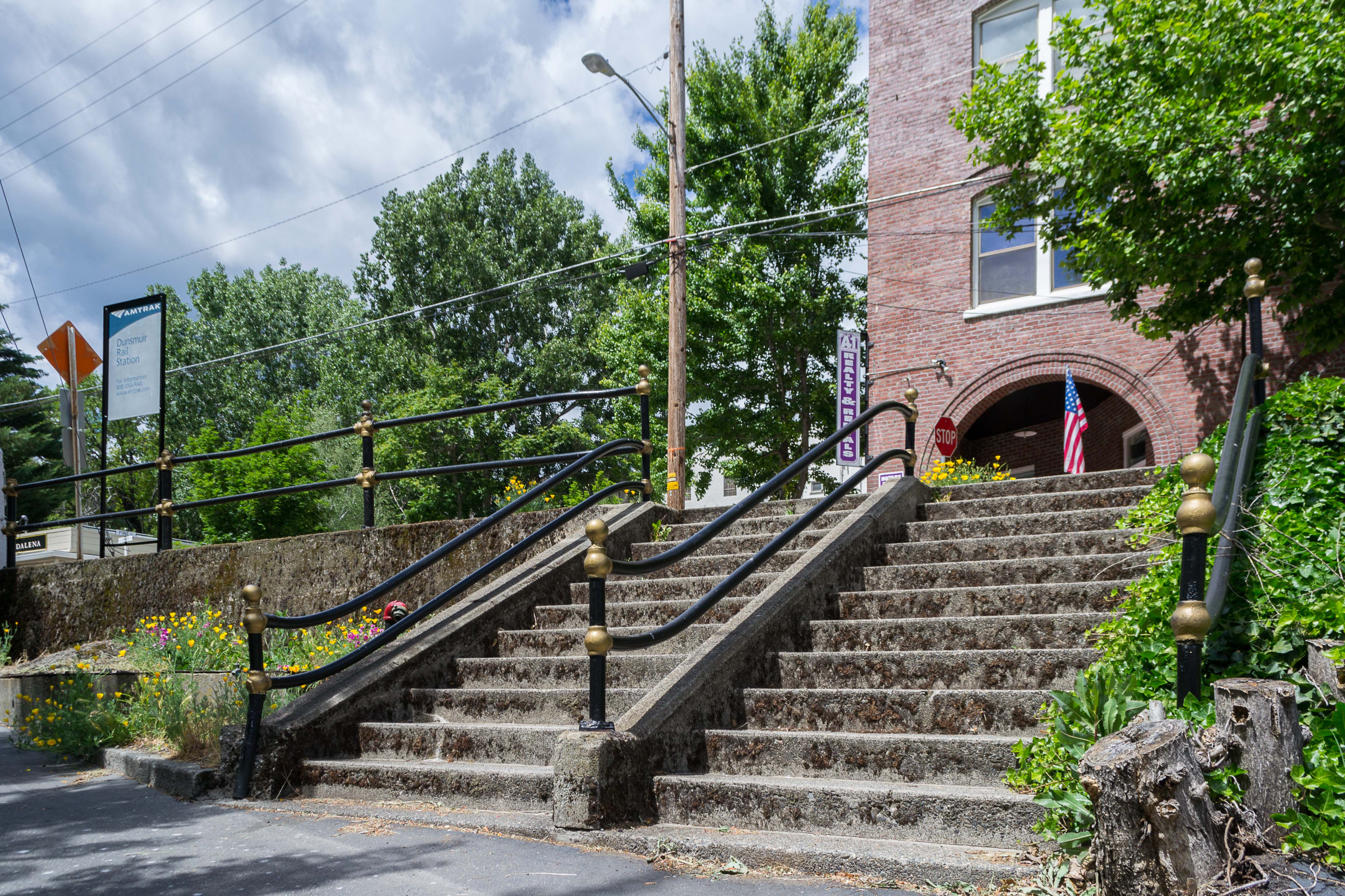 Steps leading to the town of Dunsmuir, California